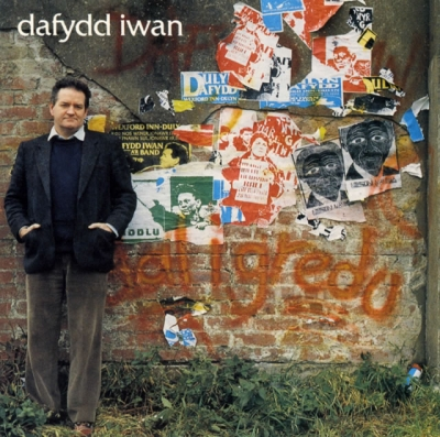 Artwork for the Album Dal I Gredu by Dafydd Iwan